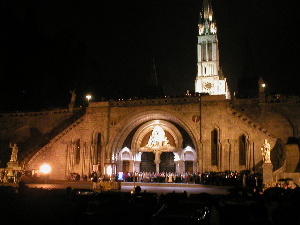 Matt - London 18:14, 21 January 2007 (UTC)